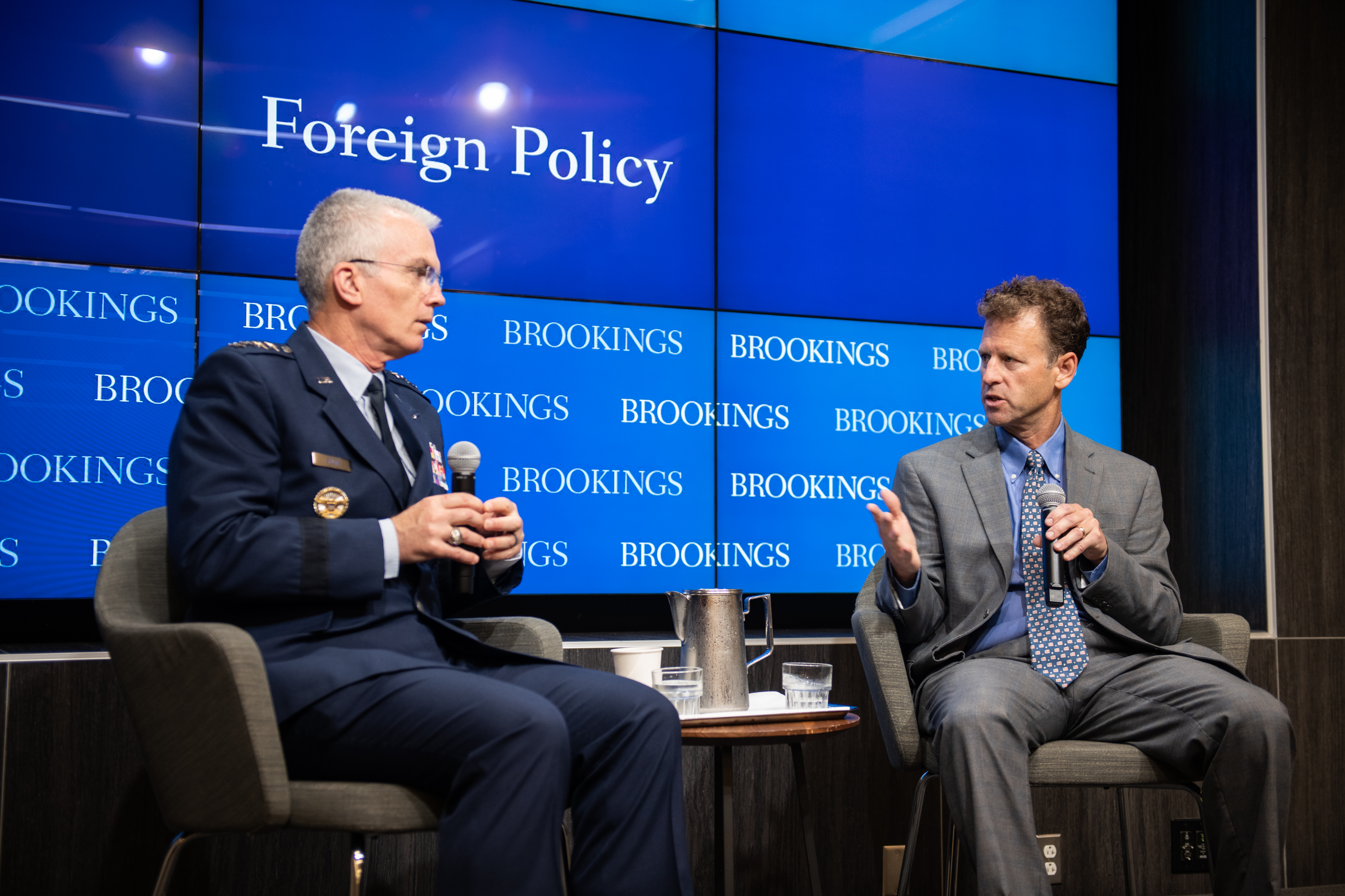 Michael O'Hanlon, senior fellow at the Brookings Institution, poses a question to Air Force Gen. Paul J. Selva, vice chairman of the Joint Chiefs of Staff, during a moderated discussion at the Brookings Institution in Washington, D.C., June 28, 2019. (DoD Photo by U.S. Army Sgt. James K. McCann)